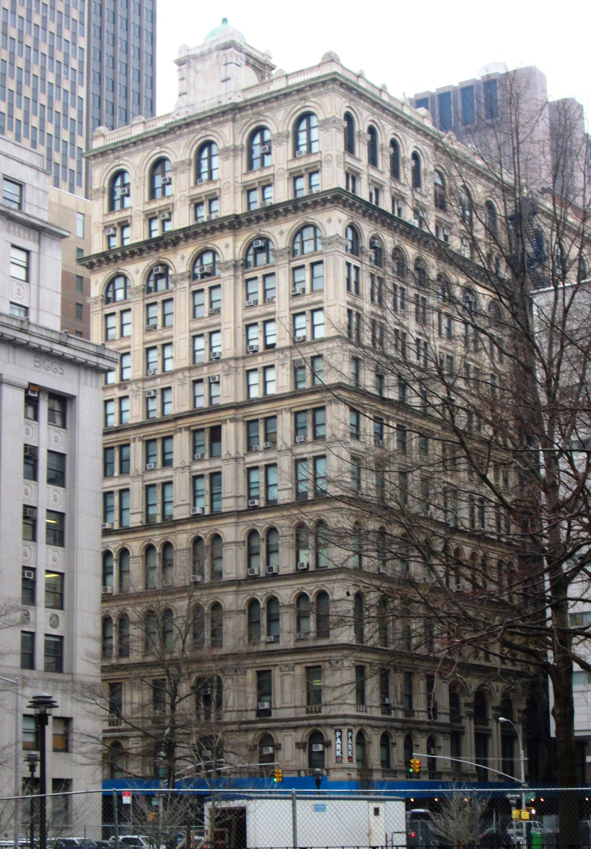 The former New York Life Insurance Company Building at 346 Broadway (also known as 108 Leonard Street) between Leonard Street and Catherine Lane in the Tribeca neighborhood of Manhattan, New York City was built in 1894-99 in the Italian Renaissance Revival style. Architect Stephen Decatur Hatch was commissioned in 1894 to extend to the east the building that existed on the site. Hatch died before the project could be completed, and it was taken over by McKim, Mead & White, who executed Hatch's design. During the construction of the extension, the company decided to replace the original building entirely, and the new building was designed by Stanford White of McKim, Mead & White, integrating Hatch's design. NY Life left the building in 1928, and it has housed NYC municipal offices since 1967. The building and its interior were designated NYC landmarks in 1995. (Sources: Guide to NYC Landmarks (4th ed.) and AIA Guide to NYC (4th ed.)) This image was taken outside the Criminal Courts Building at 100 Centre Street.